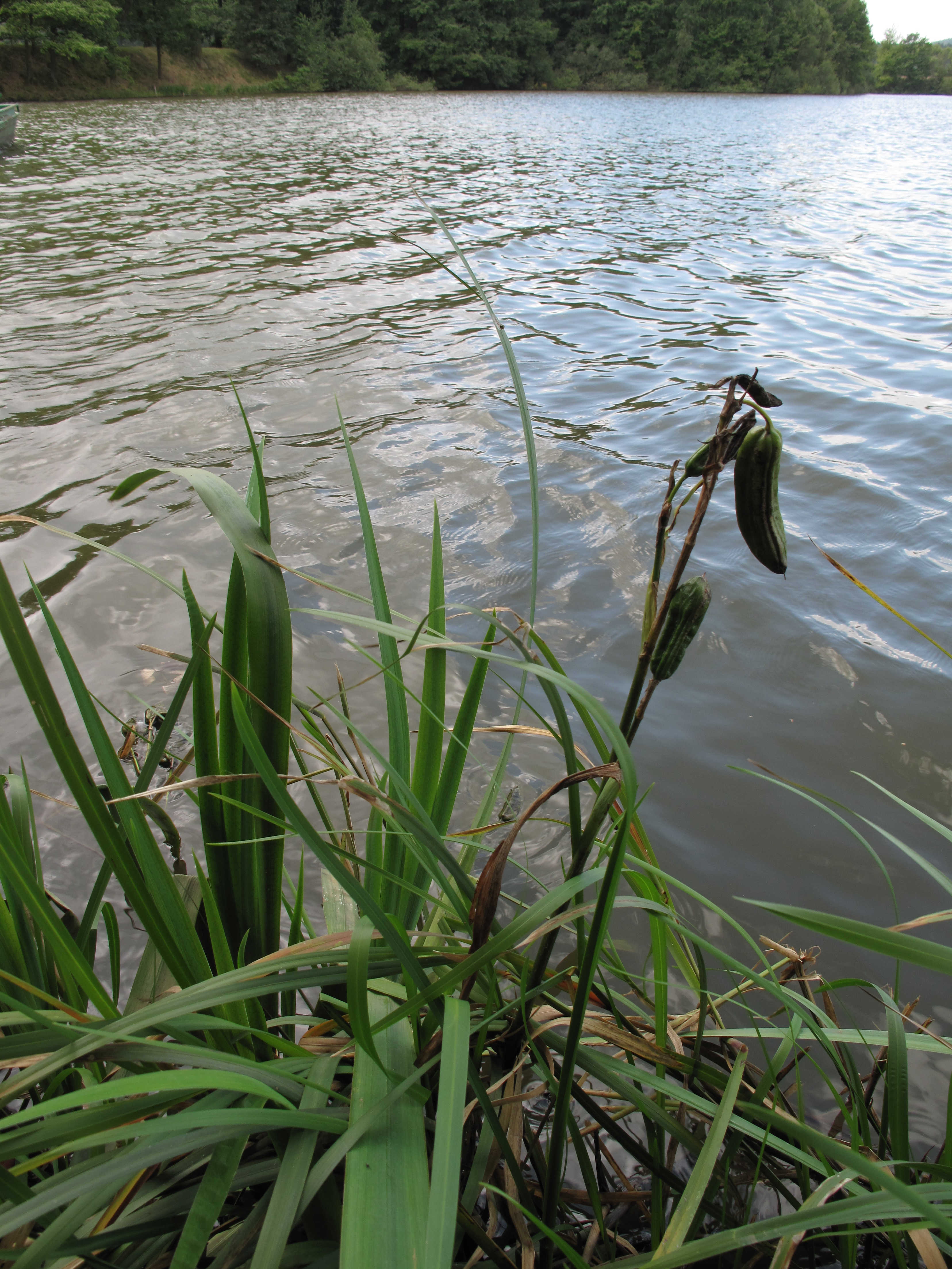 Siberian Iris (Iris sibirica) at Dolejší Kařezský rybník (pond) in Kařezské rybníky natural monument, Rokycany District, Czech Republic.